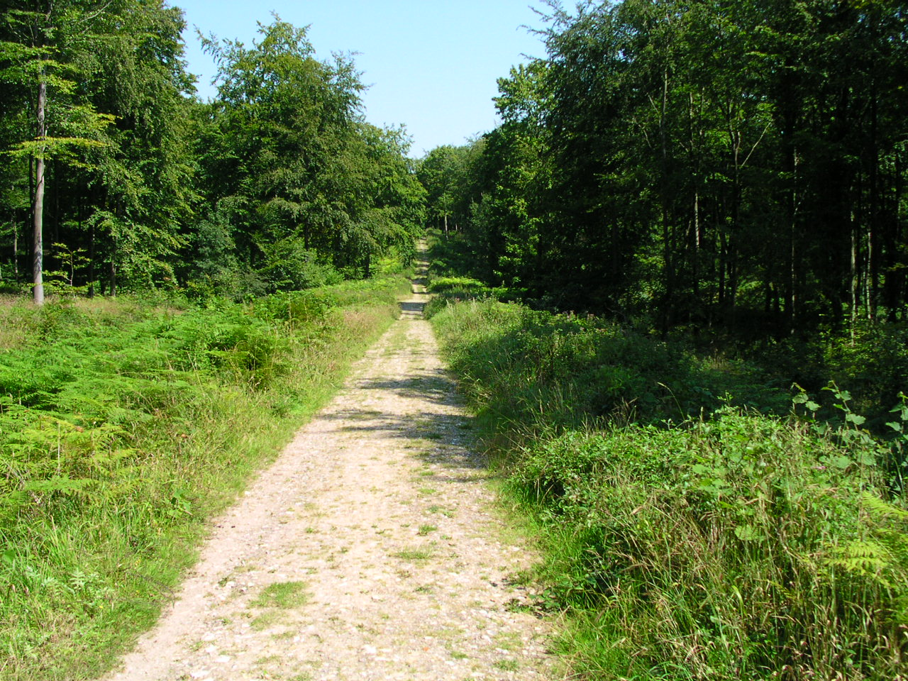 Stane Street Roman road at Eartham Woods, West Sussex, England.